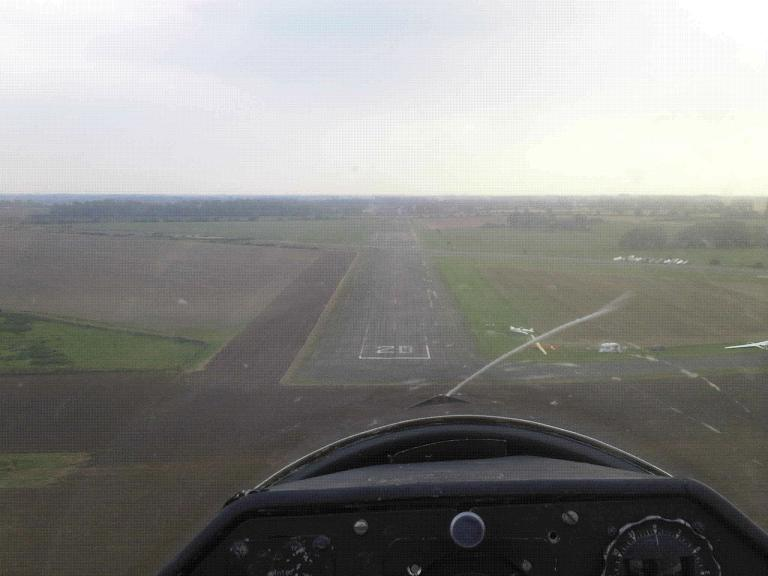 Approaching runway at Shipdham Airfield, Norfolk, England.